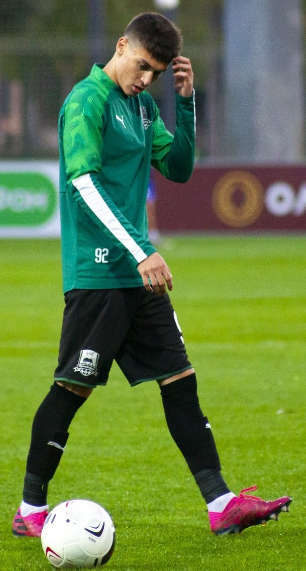 Ruslan Apekov with FC Krasnodar-2 before the game against FC Fakel Voronezh.